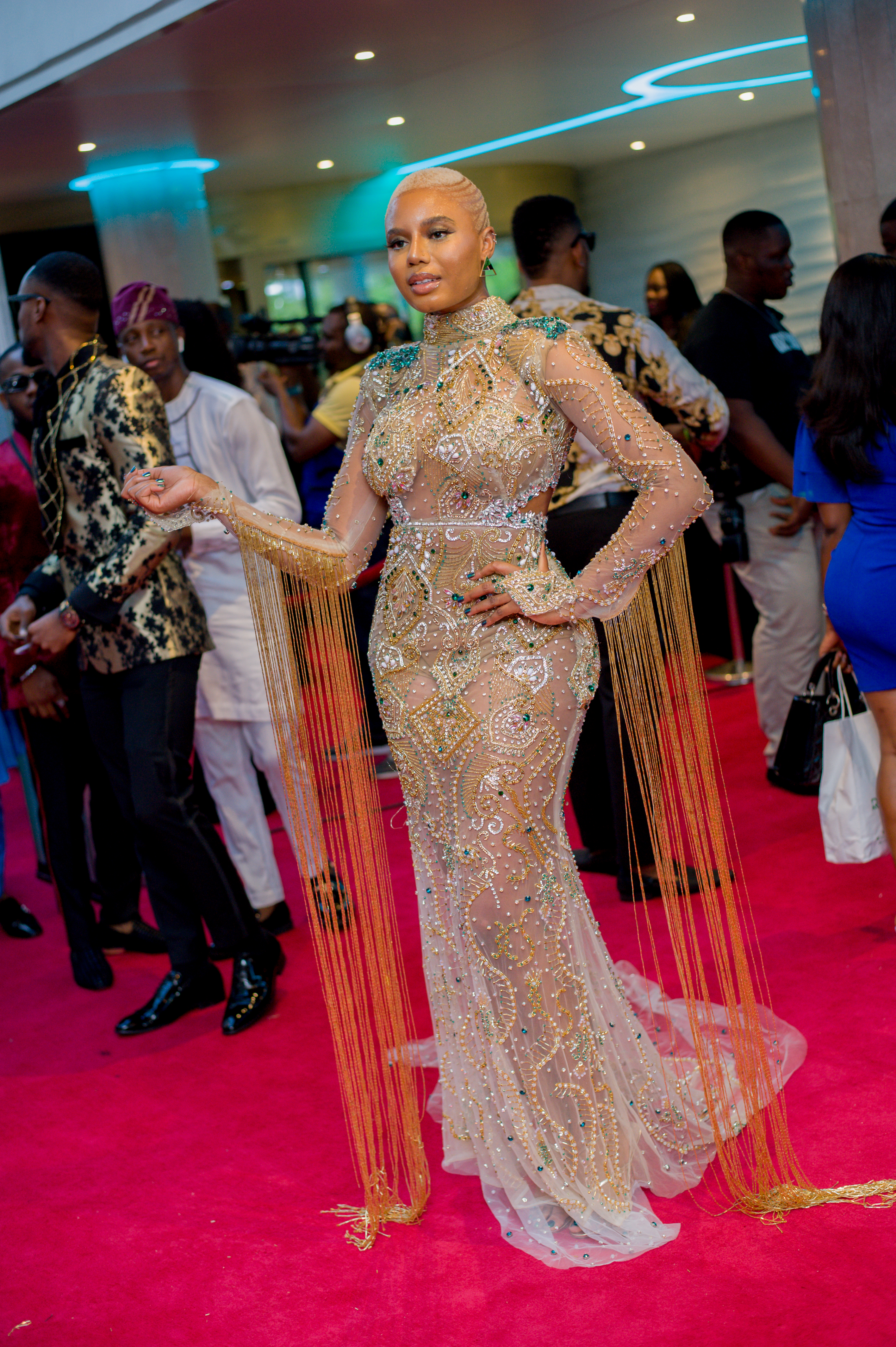 Pictures from AMVCA 2020